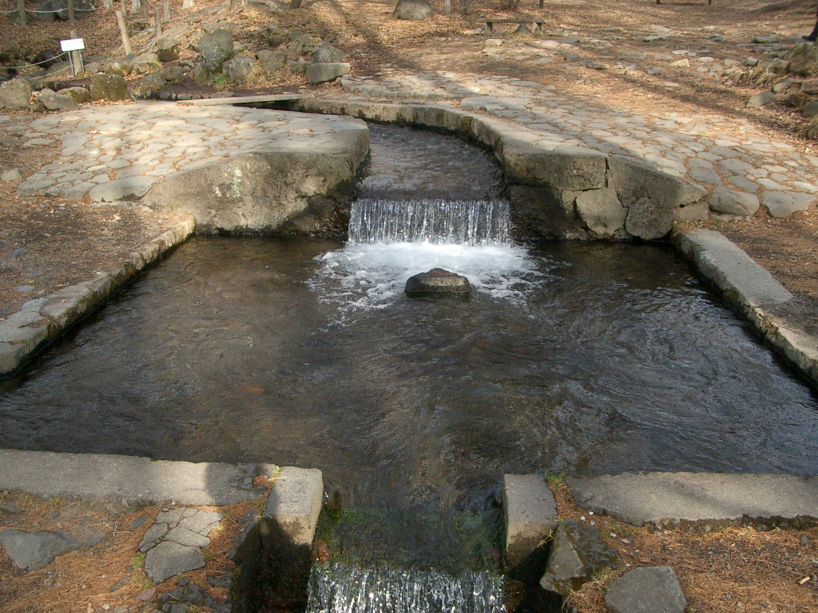 Sanbuichi-yūsui, which is in Nagasaka-chō, Hokuto-city, Yamanashi-pref., Japan. Same amounts of water runs for three directions, front, left-slanting, right-slanting by a small triangle statue.